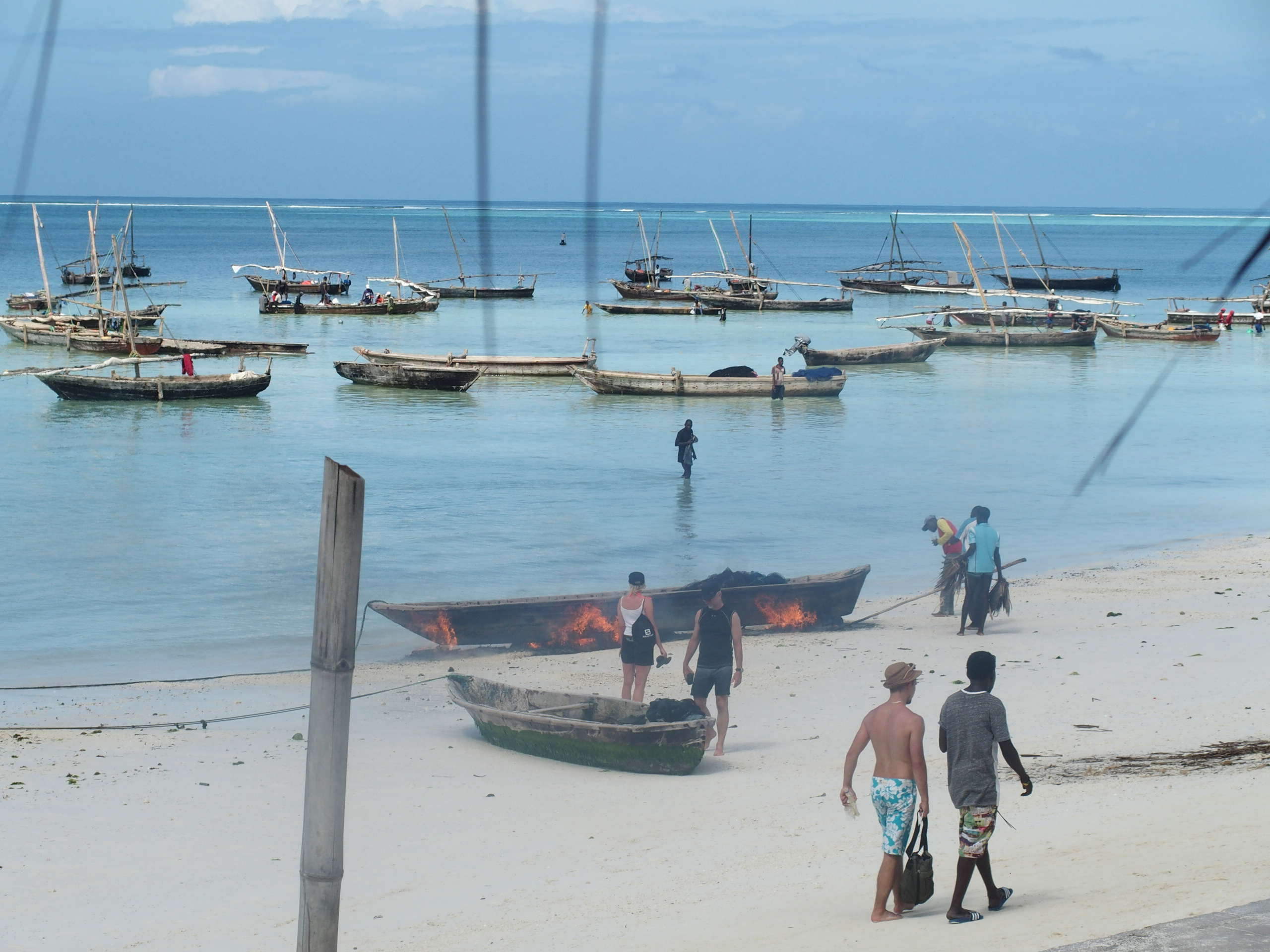 This is an image with the theme "Africa on the Move or Transport" from: Tanzania